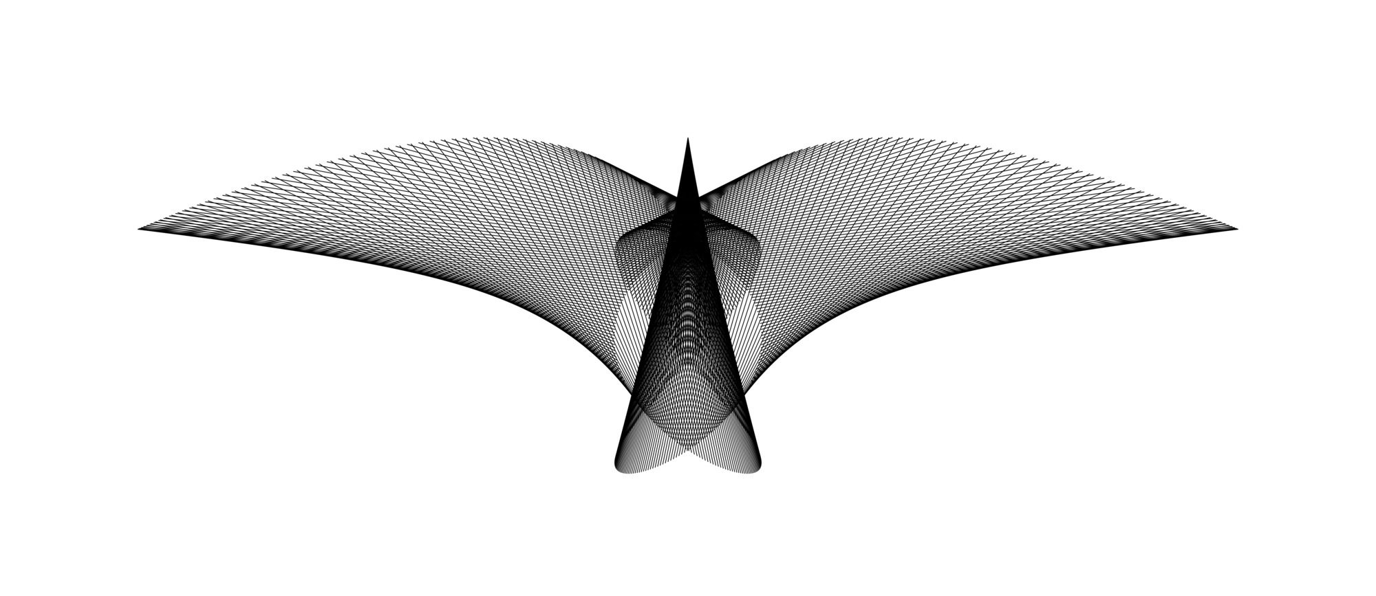 This image is like a bird in flight. It shows 500 line segments. For each i = 1 , 2 , 3 , . . . , 500 {\displaystyle i=1,2,3,...,500} the endpoints of the i {\displaystyle i} -th line segment are: ( 3 2 ( sin ⁡ ( 2 π i 500 + π 3 ) ) 7 , 1 4 ( cos ⁡ ( 6 π i 500 ) ) 2 ) {\displaystyle \left({\frac {3}{2 \left(\sin \left({\frac {2\pi i}{500 +{\frac {\pi }{3 \right)\right)^{7},\,{\frac {1}{4 \left(\cos \left({\frac {6\pi i}{500 \right)\right)^{2}\right)} and ( 1 5 sin ⁡ ( 6 π i 500 + π 5 ) , − 2 3 ( sin ⁡ ( 2 π i 500 − π 3 ) ) 2 ) {\displaystyle \left({\frac {1}{5 \sin \left({\frac {6\pi i}{500 +{\frac {\pi }{5 \right),\,{\frac {-2}{3 \left(\sin \left({\frac {2\pi i}{500 -{\frac {\pi }{3 \right)\right)^{2}\right)} .